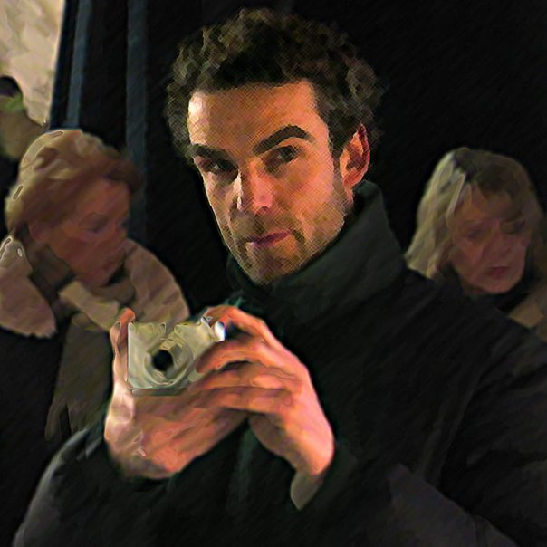 mirror self portrait